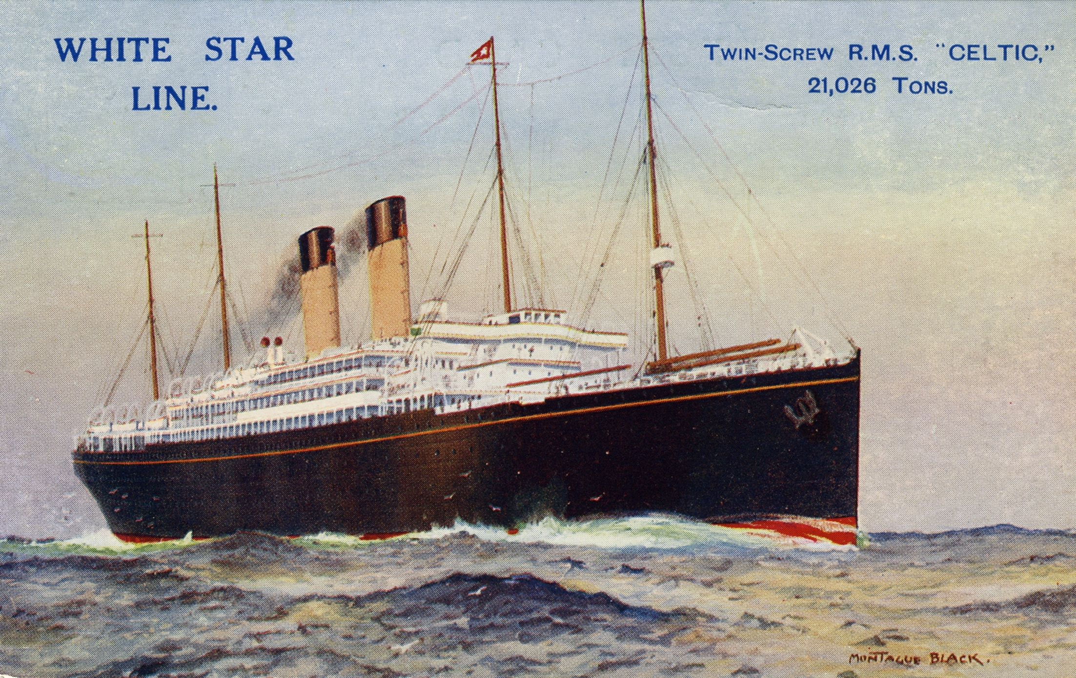 A postcard depicting the passenger ship RMS Celtic.